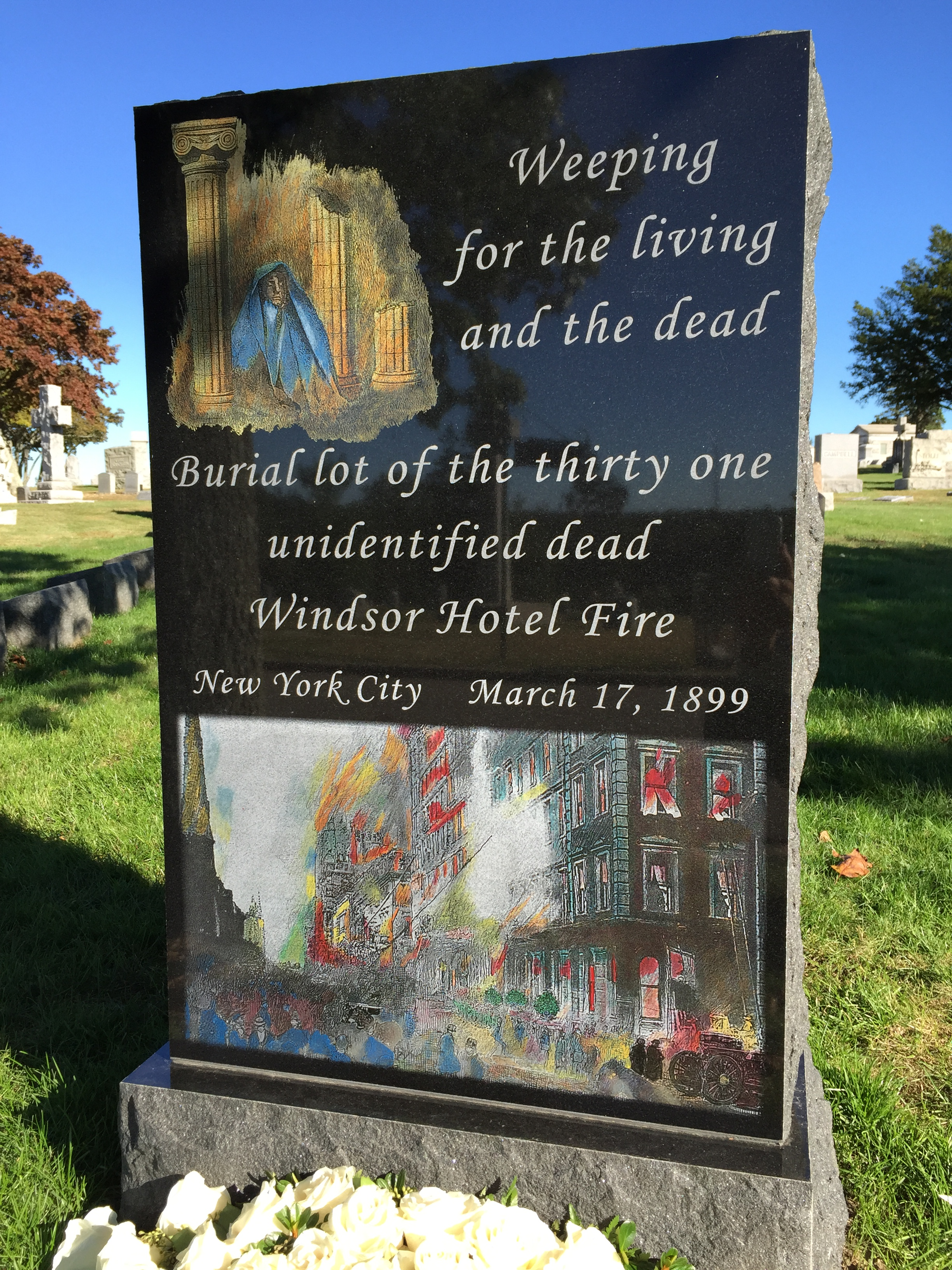 Monument to Windsor Hotel Fire Victims In Kensico Cemetary (Large format)